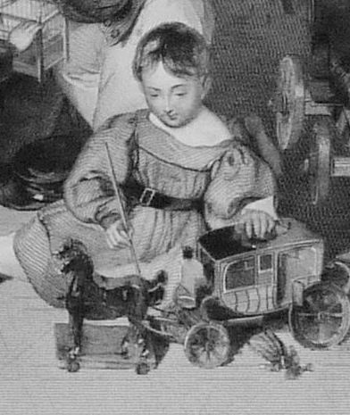 Family portrait of Karoline Auguste, the fourth wife of Holy Roman Emperor Franz II. of Austrialabel QS:Len,"Family portrait of Karoline Auguste, the fourth wife of Holy Roman Emperor Franz II. of Austria" label QS:Lde,"Familien-Vereinigung des österreichischen Kaiserhauses im Herbst 1834."